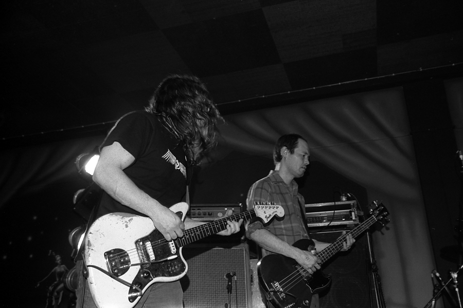 all tomorrow's parties uk 2004 weekend 2